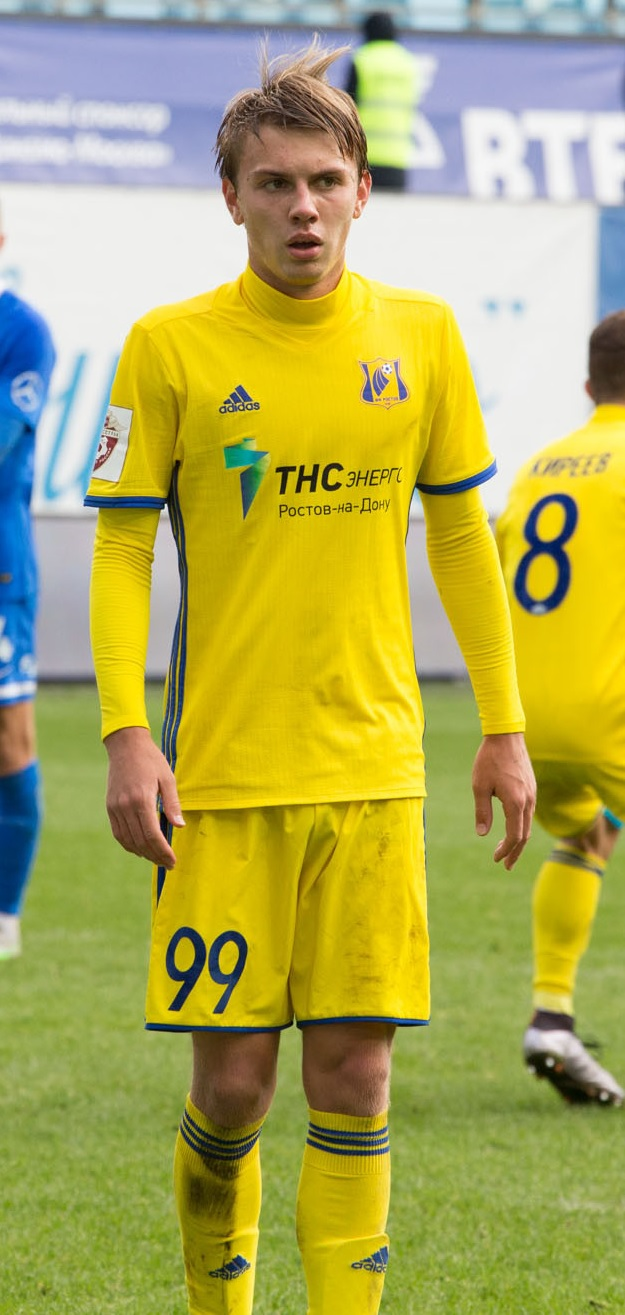 Roman Khodunov playing for FC Rostov against FC Dynamo Moscow.